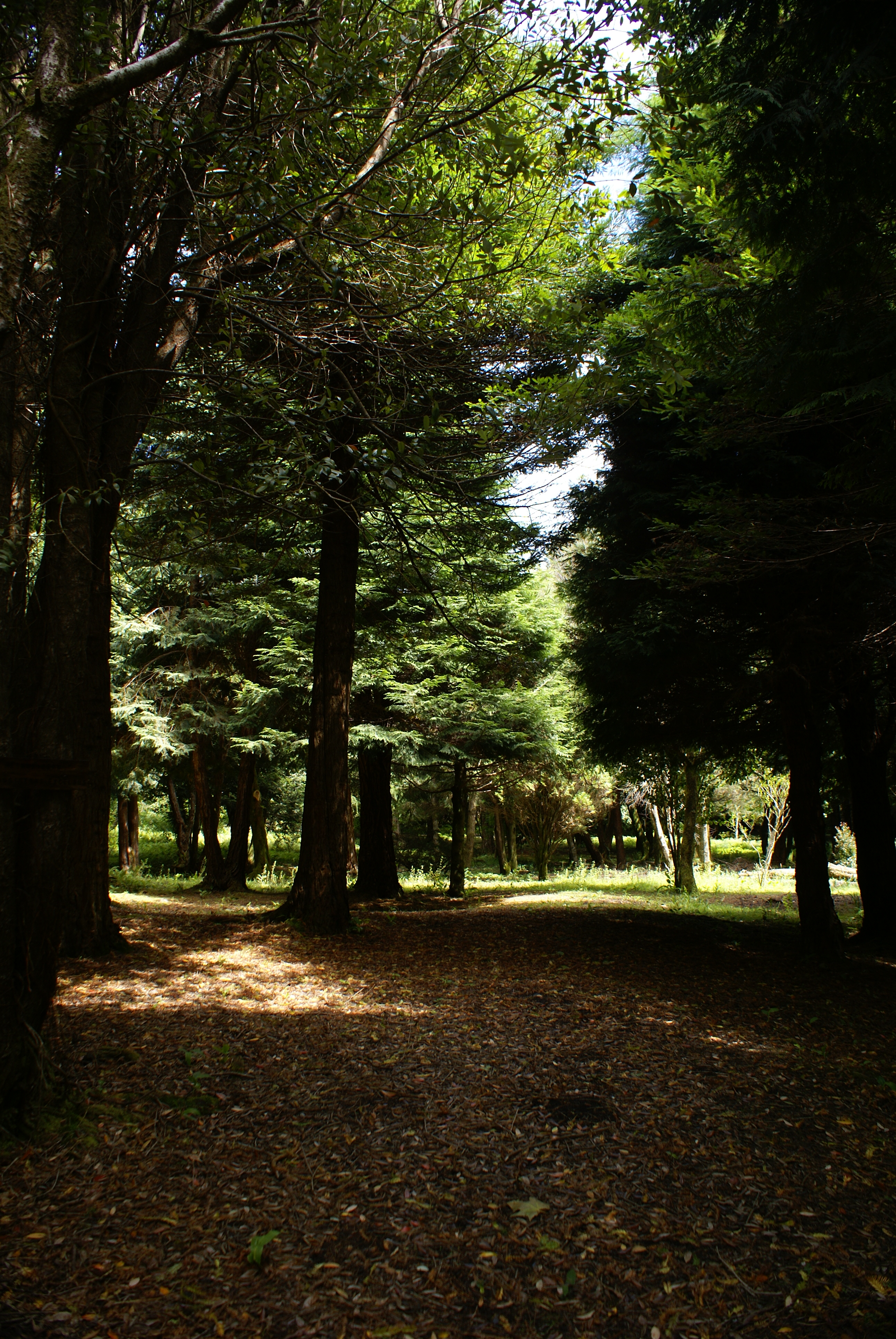 Parque Florestal do Cabouco, concelho da Horta, ilha do Faial, Açores, Portugal